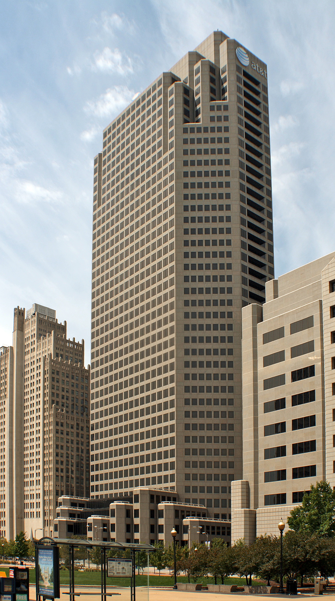 One AT&T center is the second-tallest building in St. Louis.